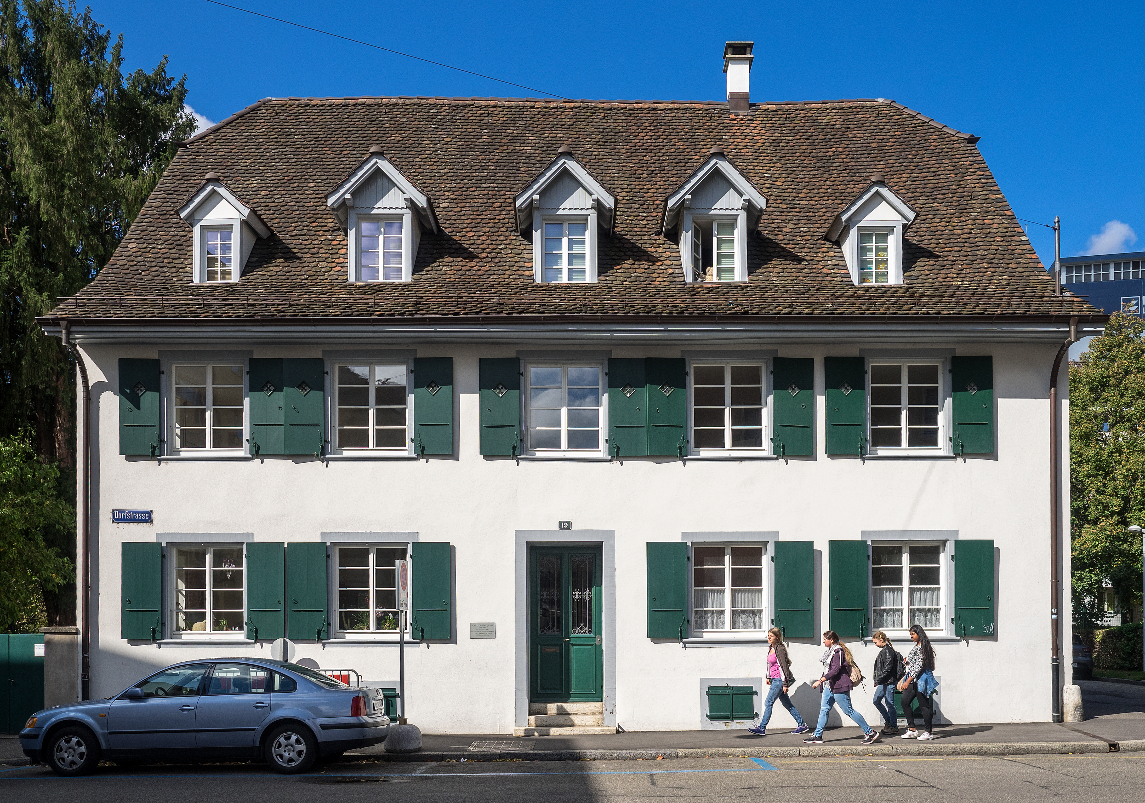 The clergy house of Kleinhüningen, Basel, Switzerland. The psychiatrist Carl Gustav Jung grew up here.